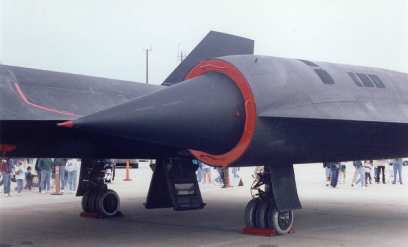 US Air Force SR-71